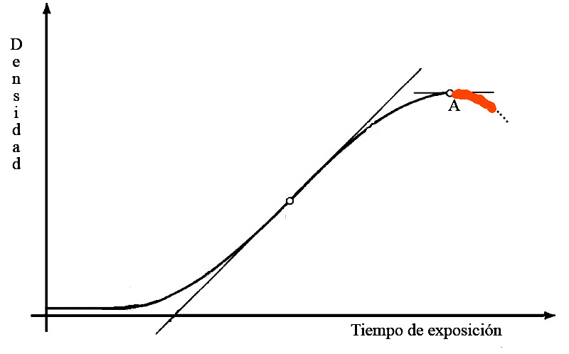 Density photografic curves